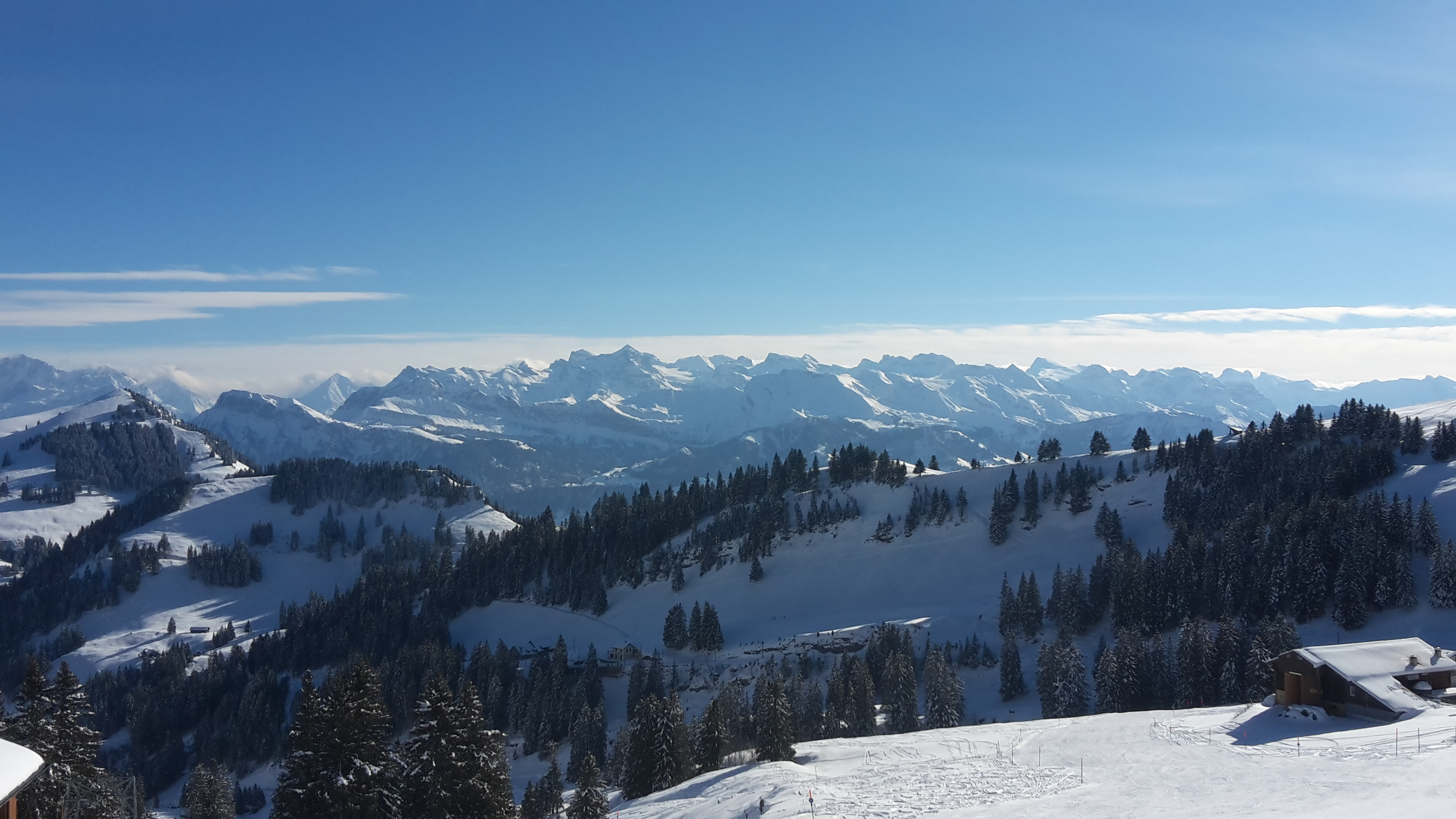 Rigi SZ